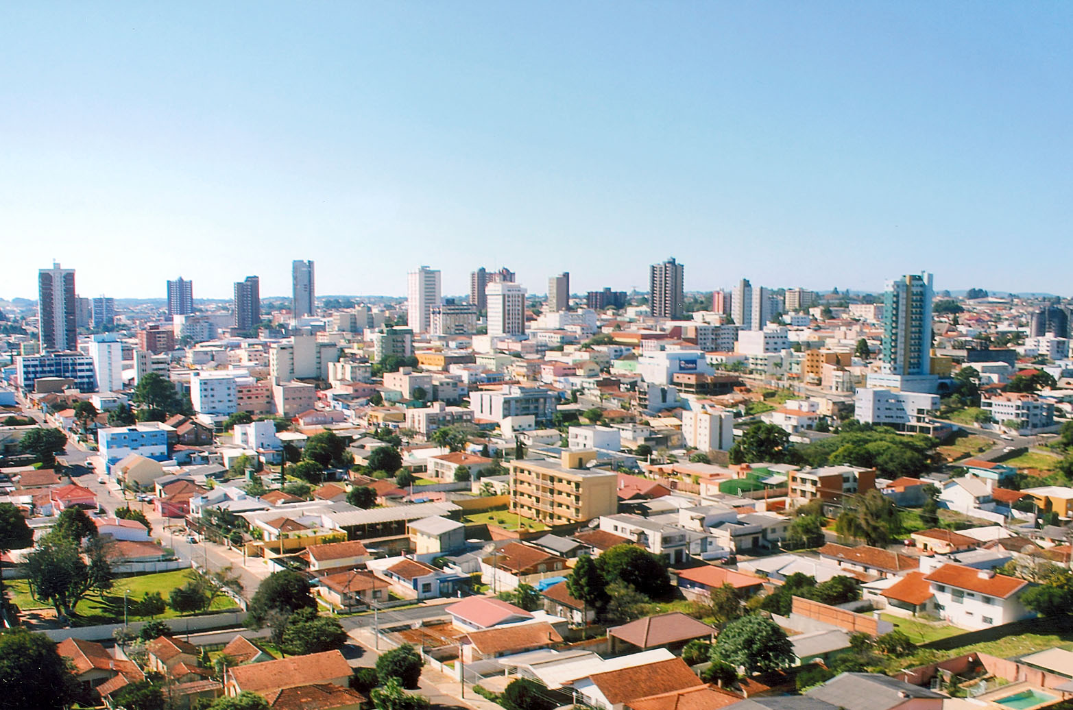 Guarapuava Skyline.